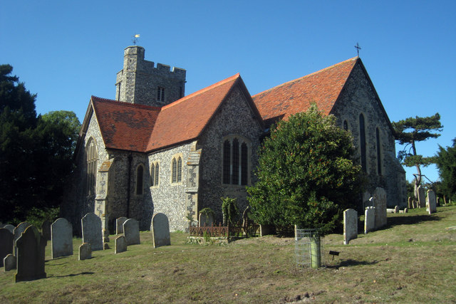 St Peter & St Paul's Church, Brenley Lane, Boughton-under-blean, Kent Grade I listed